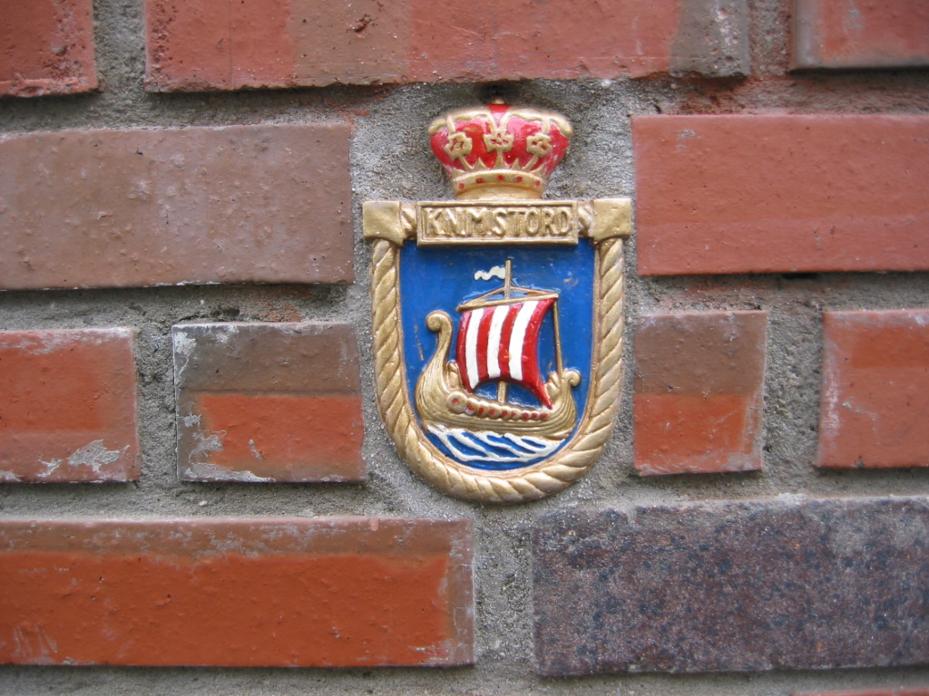 Crest KNM Stord (Royal Norwegian Navy)